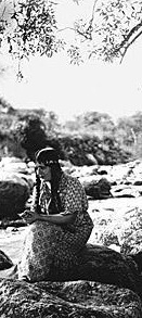 Chira Foras- actriz